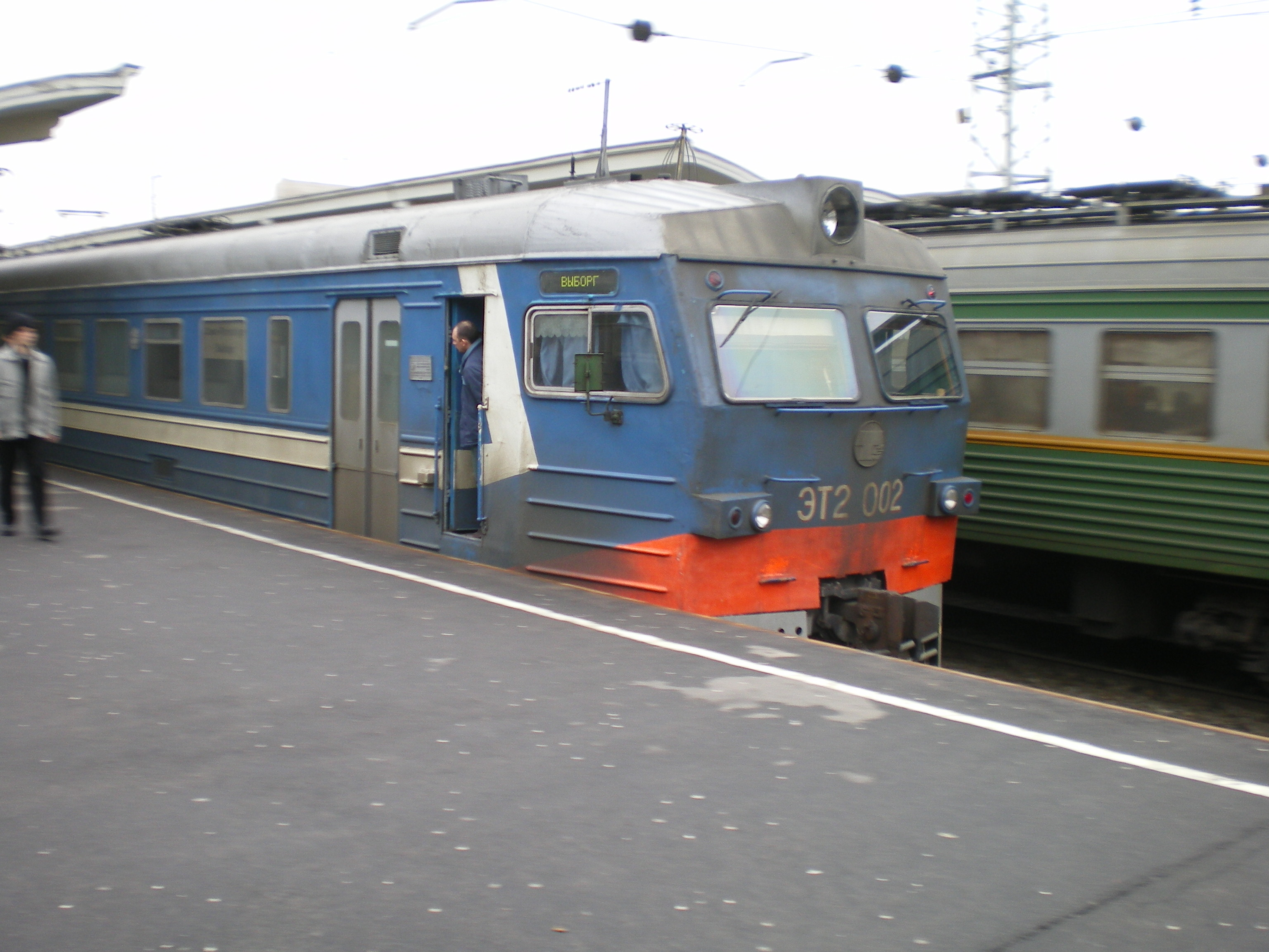 Saint Petersburg - Viborg express train goes from Finlyandsky Rail Terminal, Saint Petersburg, Russia